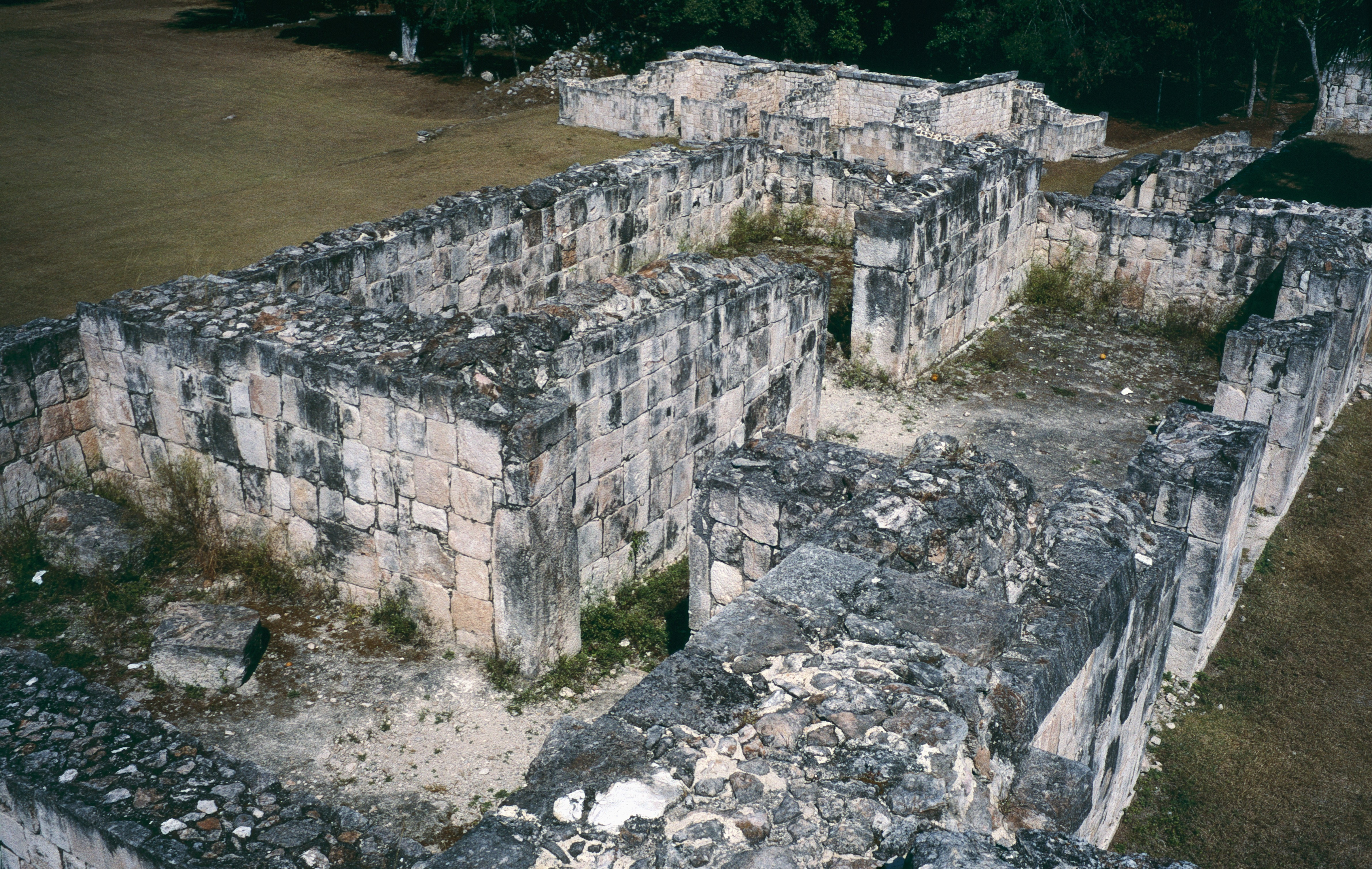 Kabah, Yucatan, Mexico: building 2C4